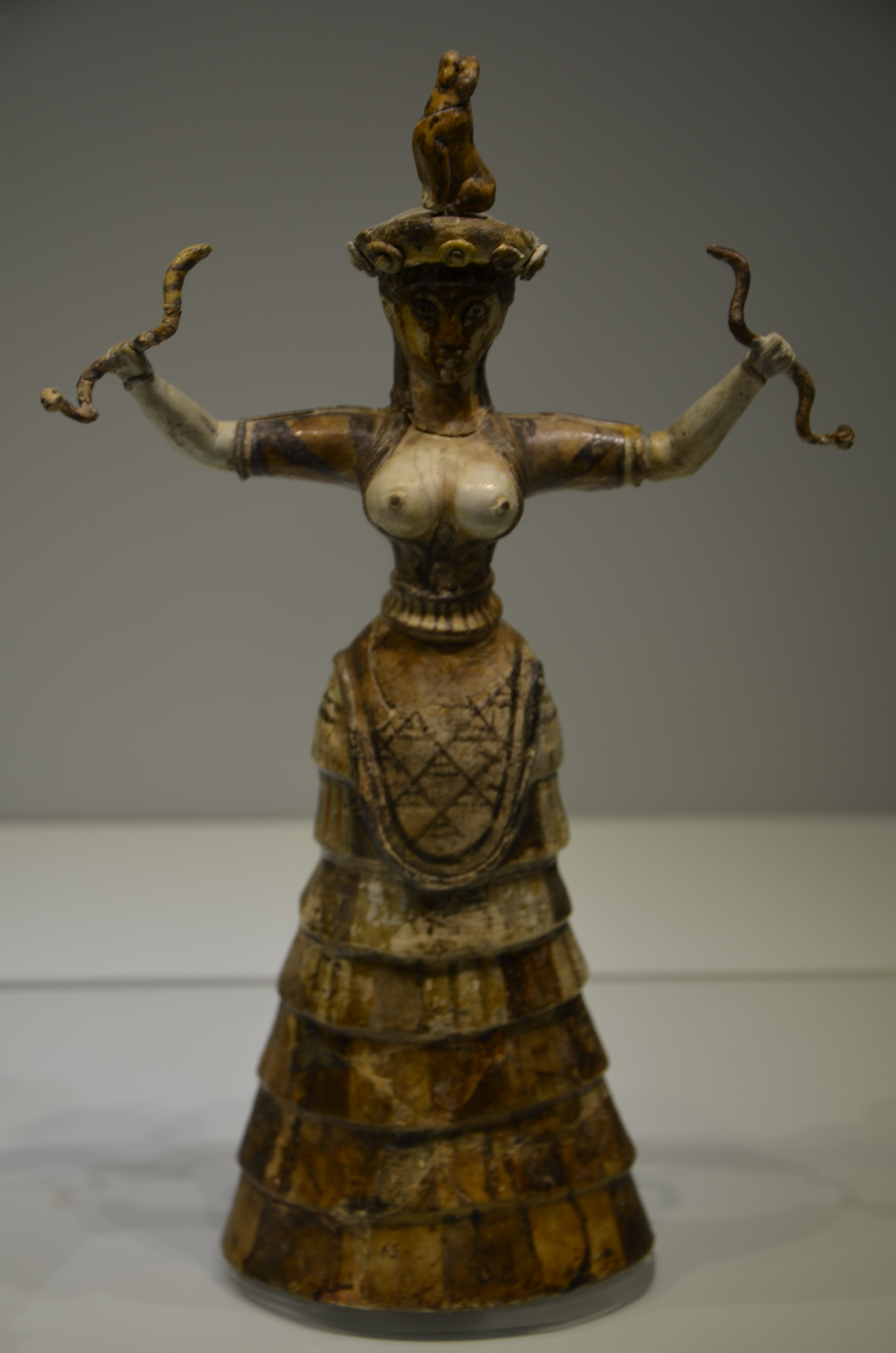 Minoan figurine: "Snake Godess" 1600 BCE Knossos, Crete. Heraklion Archeological Museum, Heraklion, Crete.